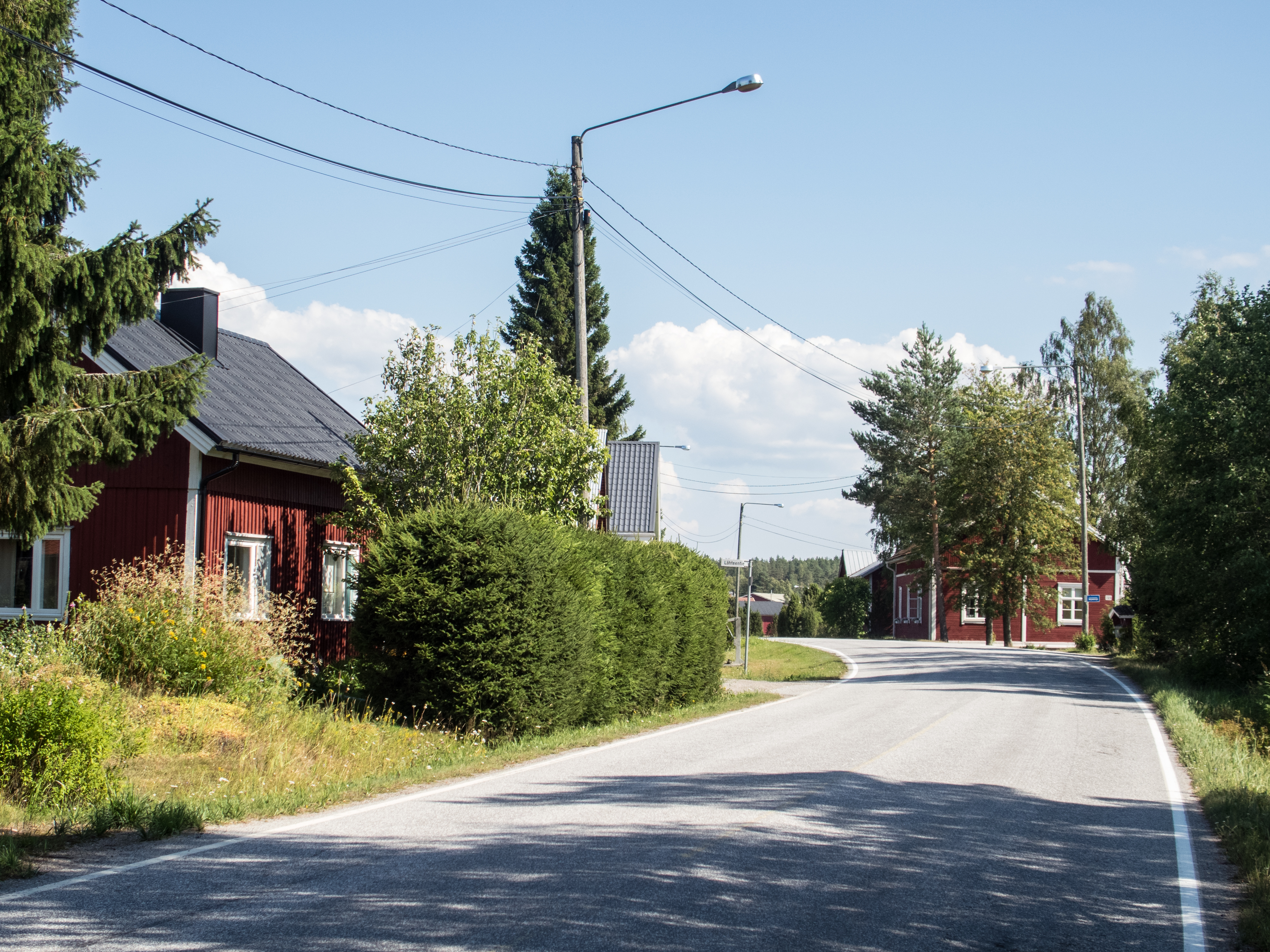 Connecting road 2174 through Sydänmaa village, Eurajoki, Finland